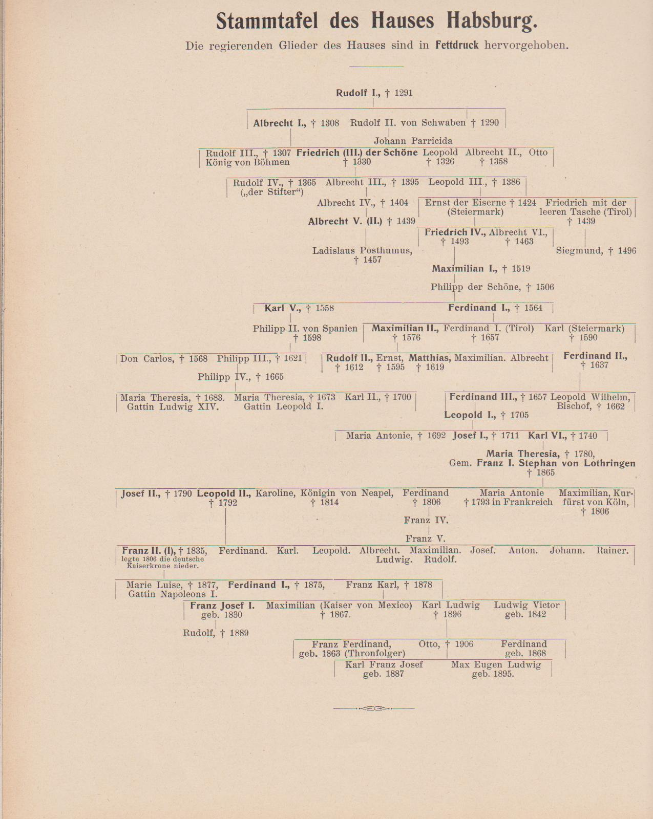 The Habsburg Family Tree, published in 1908. allerdings ist Albrecht III. der Sohn Albrecht II. Habsburg family tree